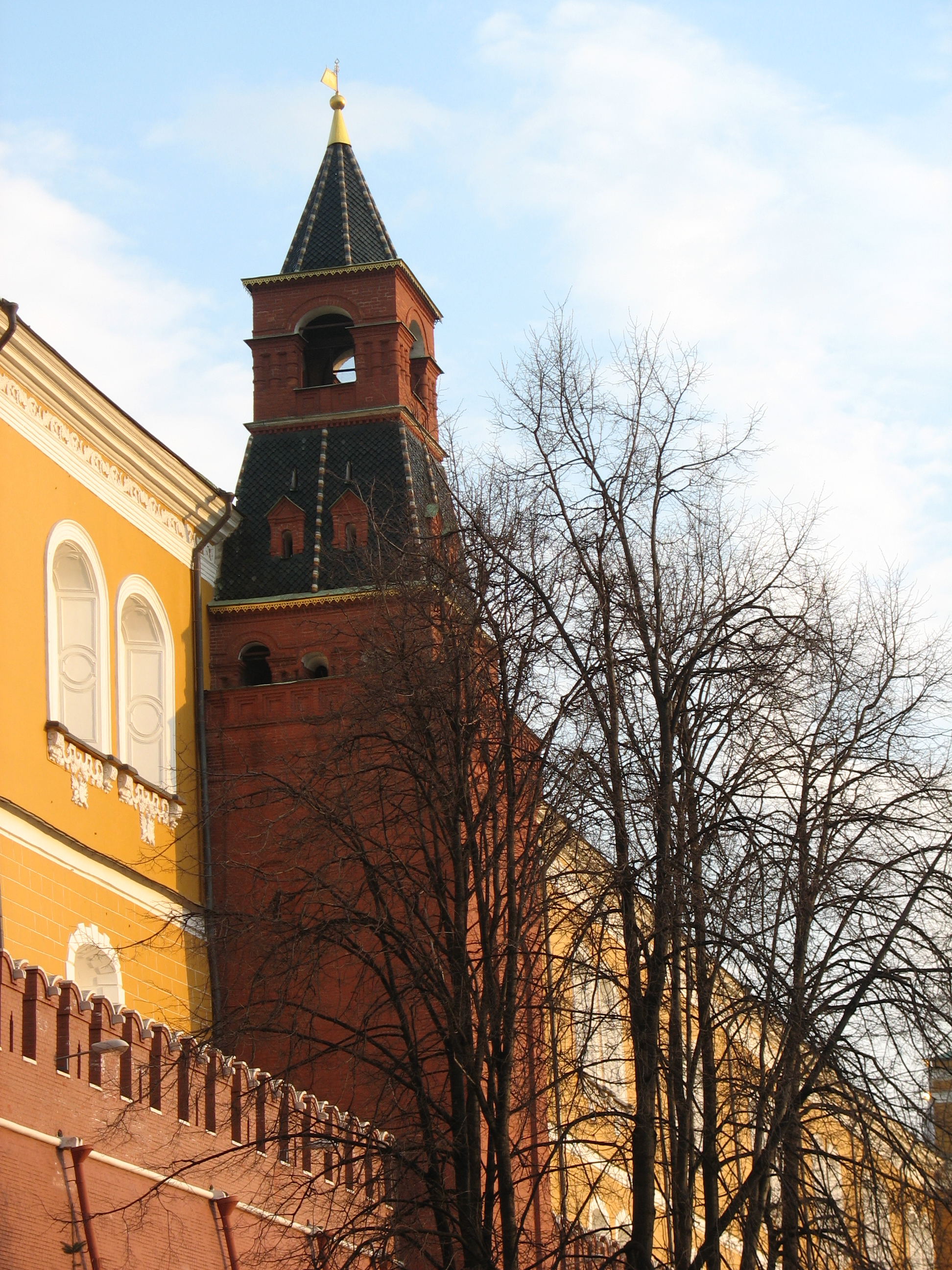 Middle Arsenalnaya tower of Moscow Kremlin